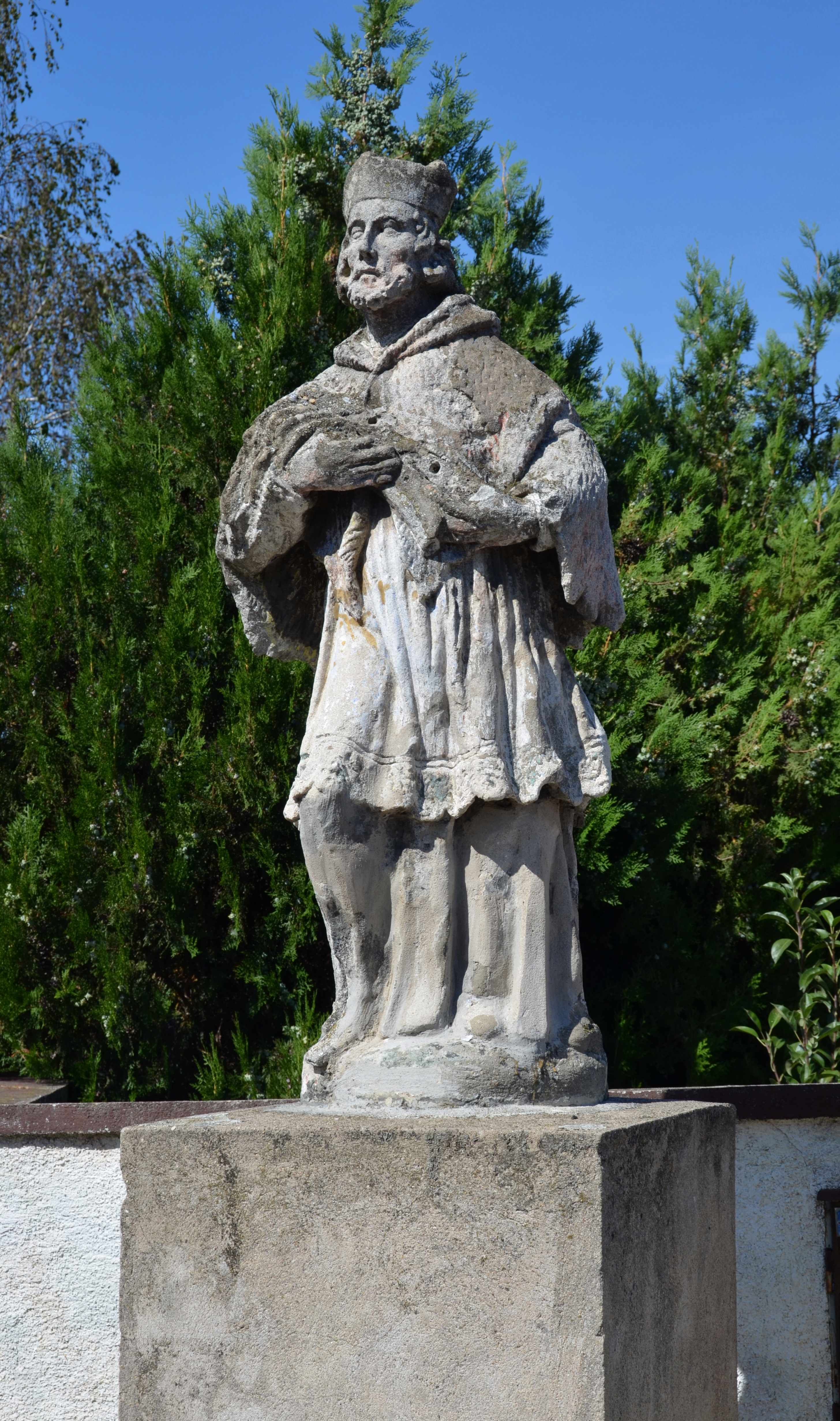 Statue of John of Nepomuk, Suchohrad, Slovakia.